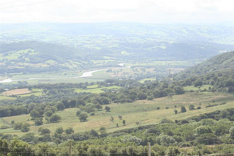 Conwy valley